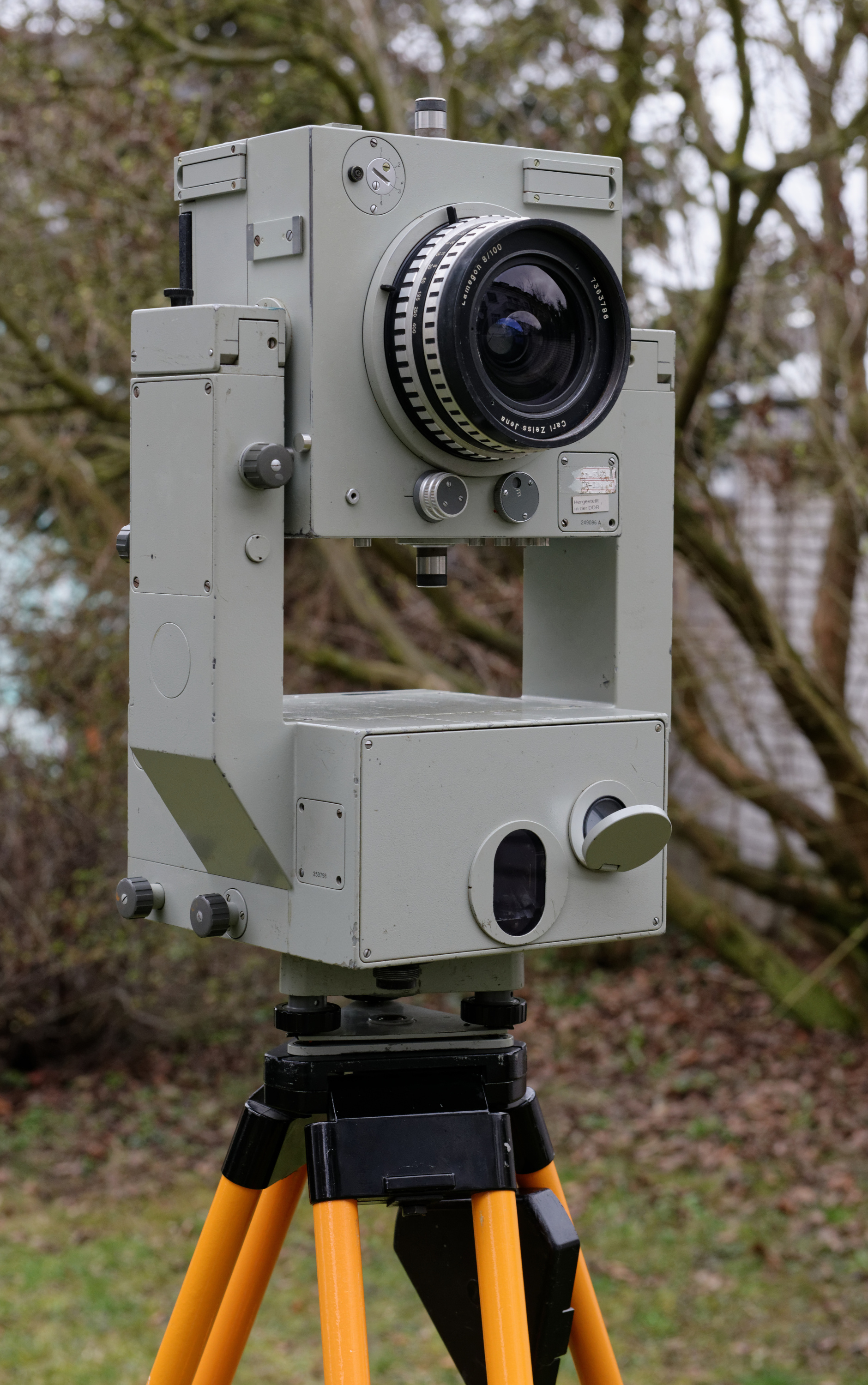 Universal Photogrammetric Camera VEB Carl Zeiss Jena UMK 10/1318.